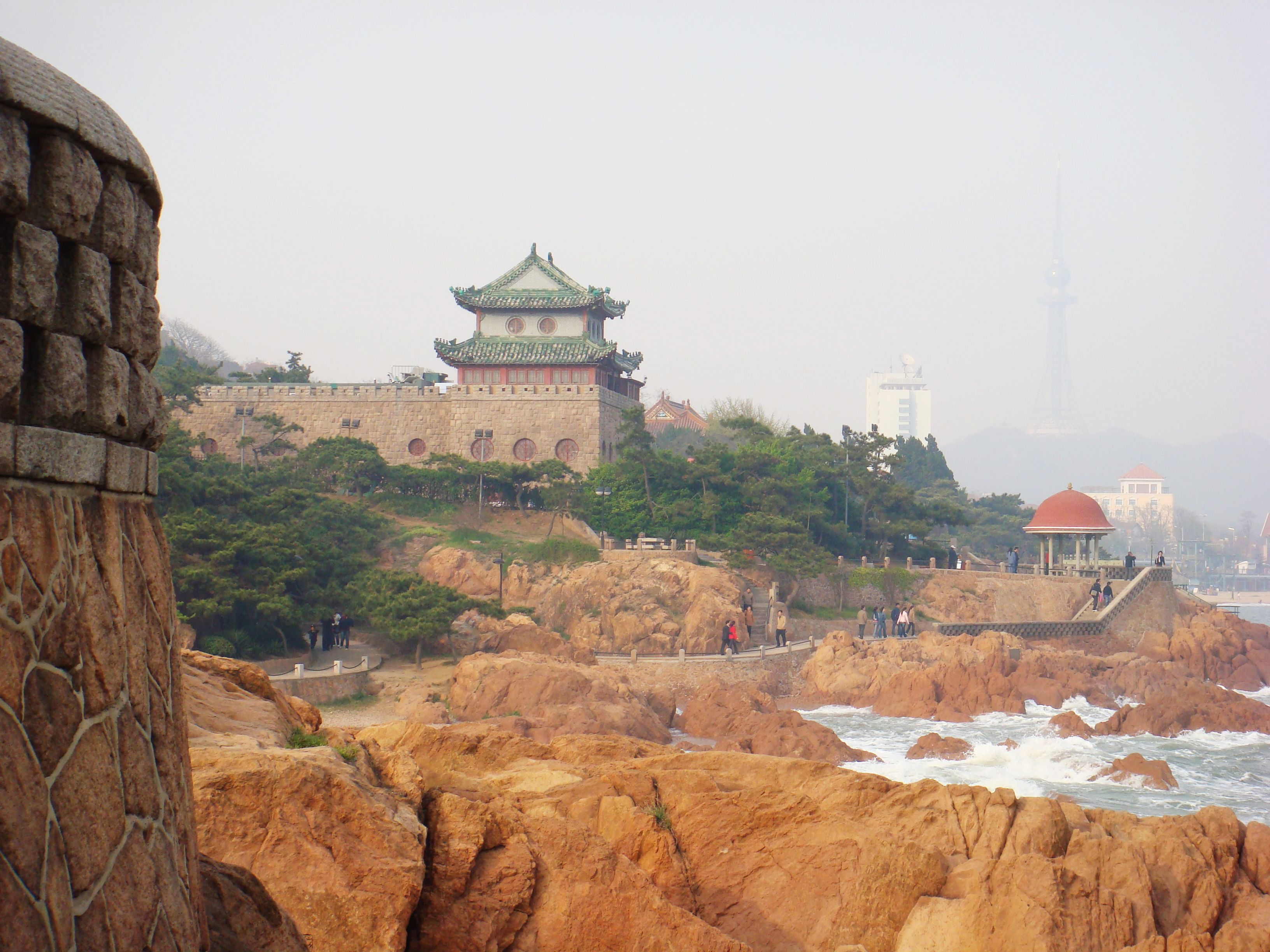 The public aquarium of Qingdao,view from west.